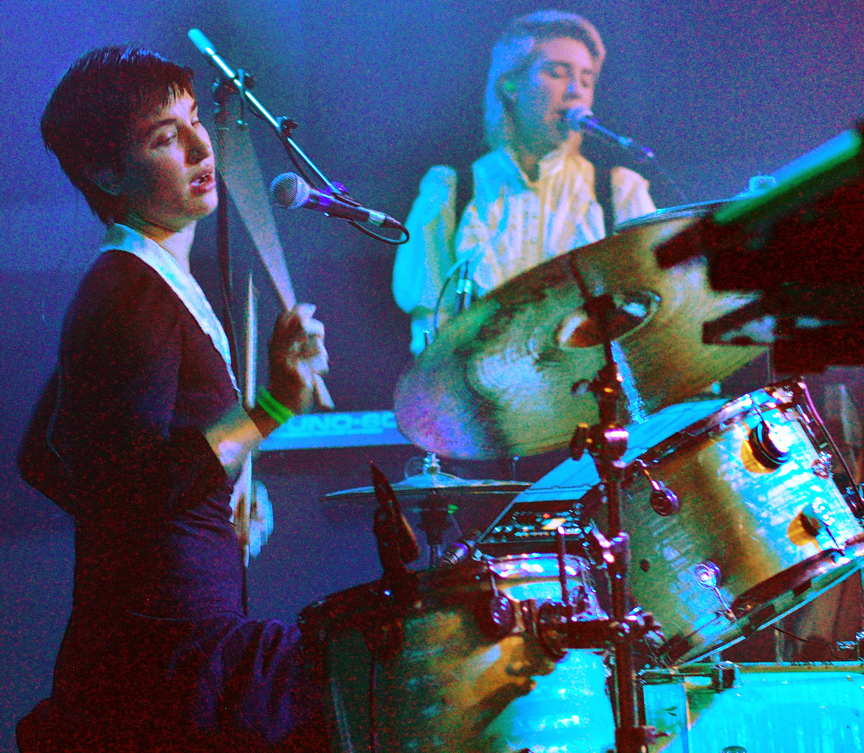 Chaos Chaos performing at Neumos in Seattle November 30, 2017.